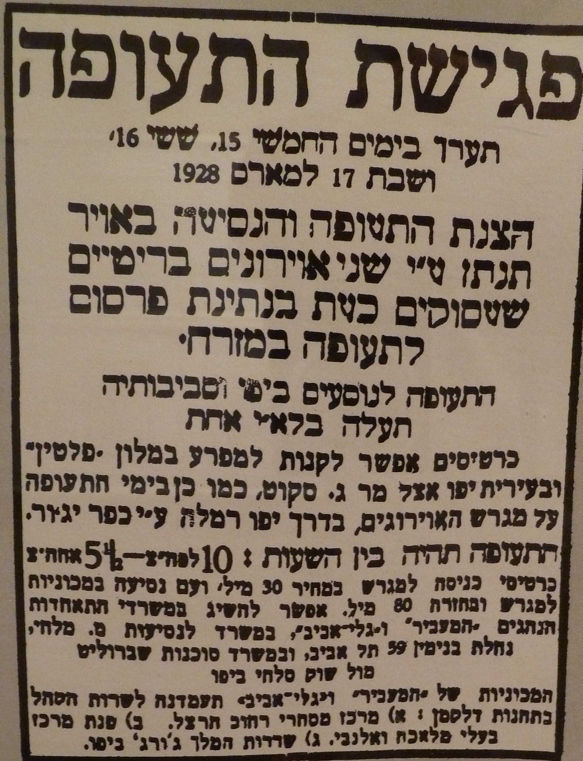 Tel Aviv historical ads from the 1920s and the 1930s. An exhibition at the Shalom Meir Tower